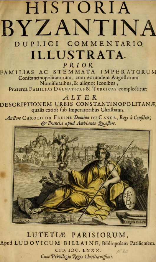 Du Cange, Historia Byzantina (1680) title page